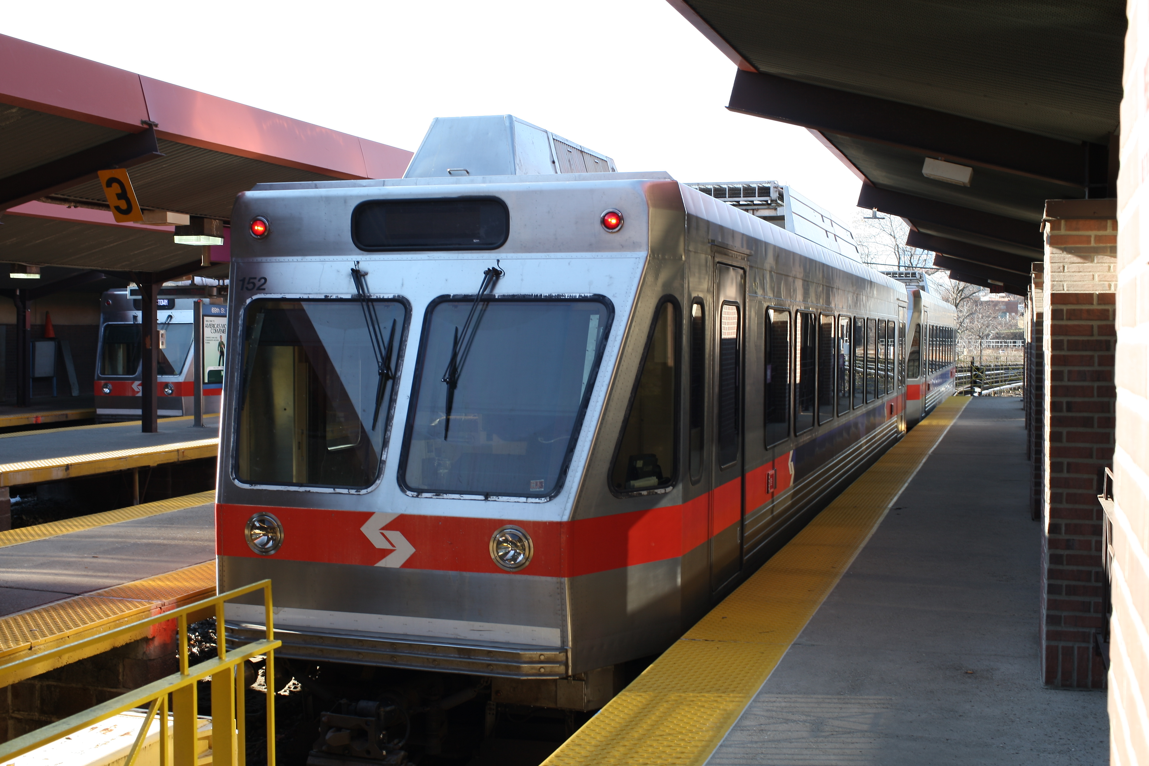 An N-5 car waits at 69th Street Transportation Center in December 2008